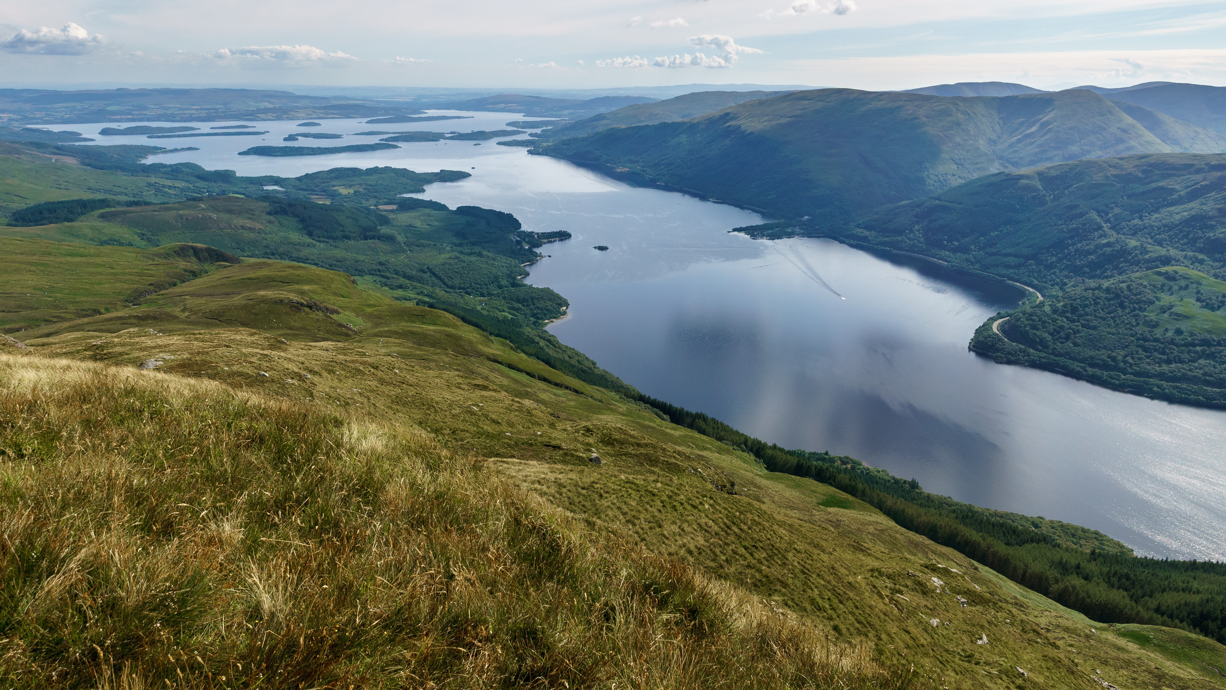 Loch Lomond, looking south from Ben Lomond.